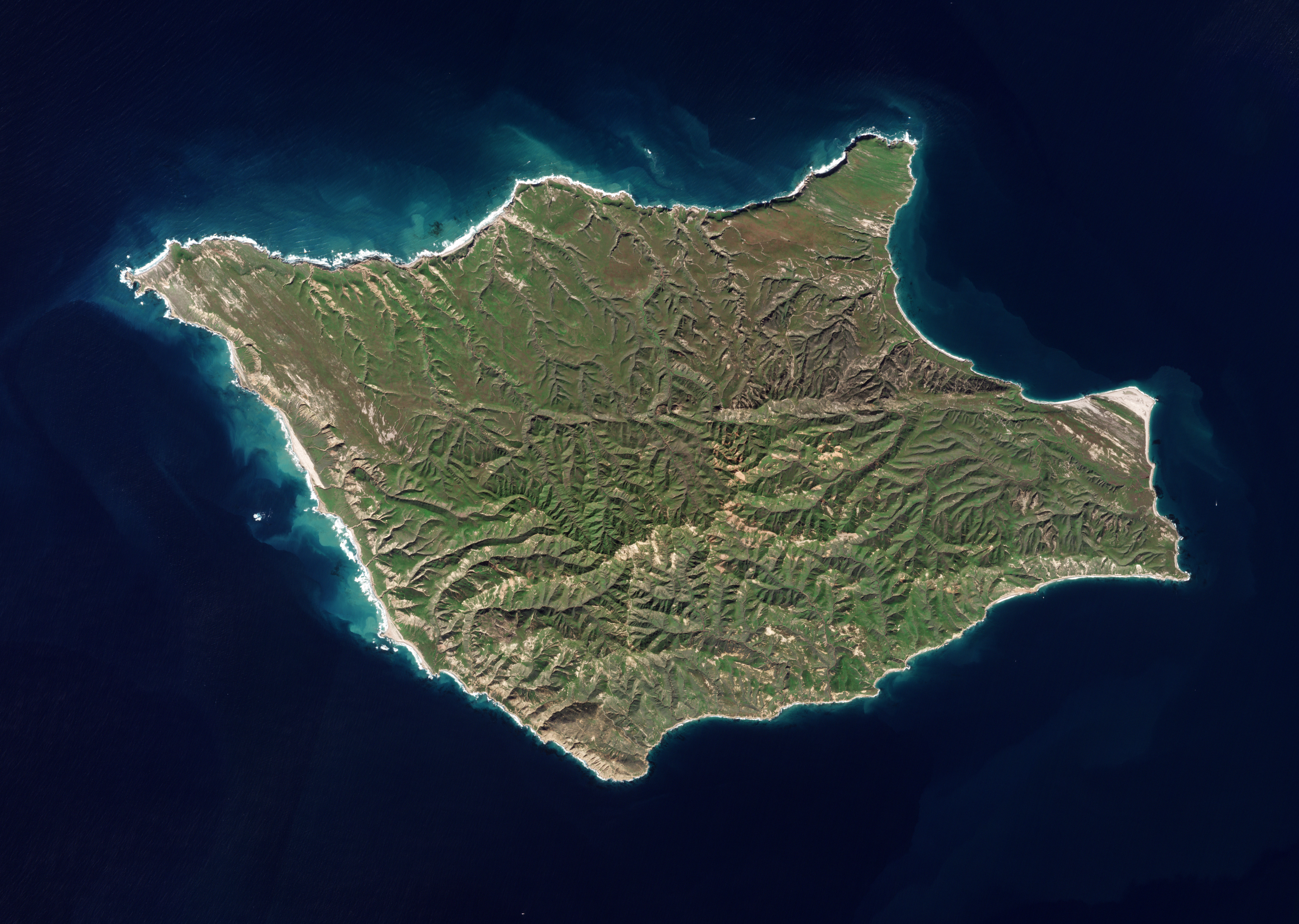 Date: 2019-02-11 Sensor: MSI on Sentinel-2B Resolution: 10m RGB Composites: True color, Band 4-3-2